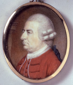 James Stuart (1713-1788), miniature, c.1778. Attributed to Philip Jean. Watercolour and body colour on ivory. National Portrait Gallery, London.